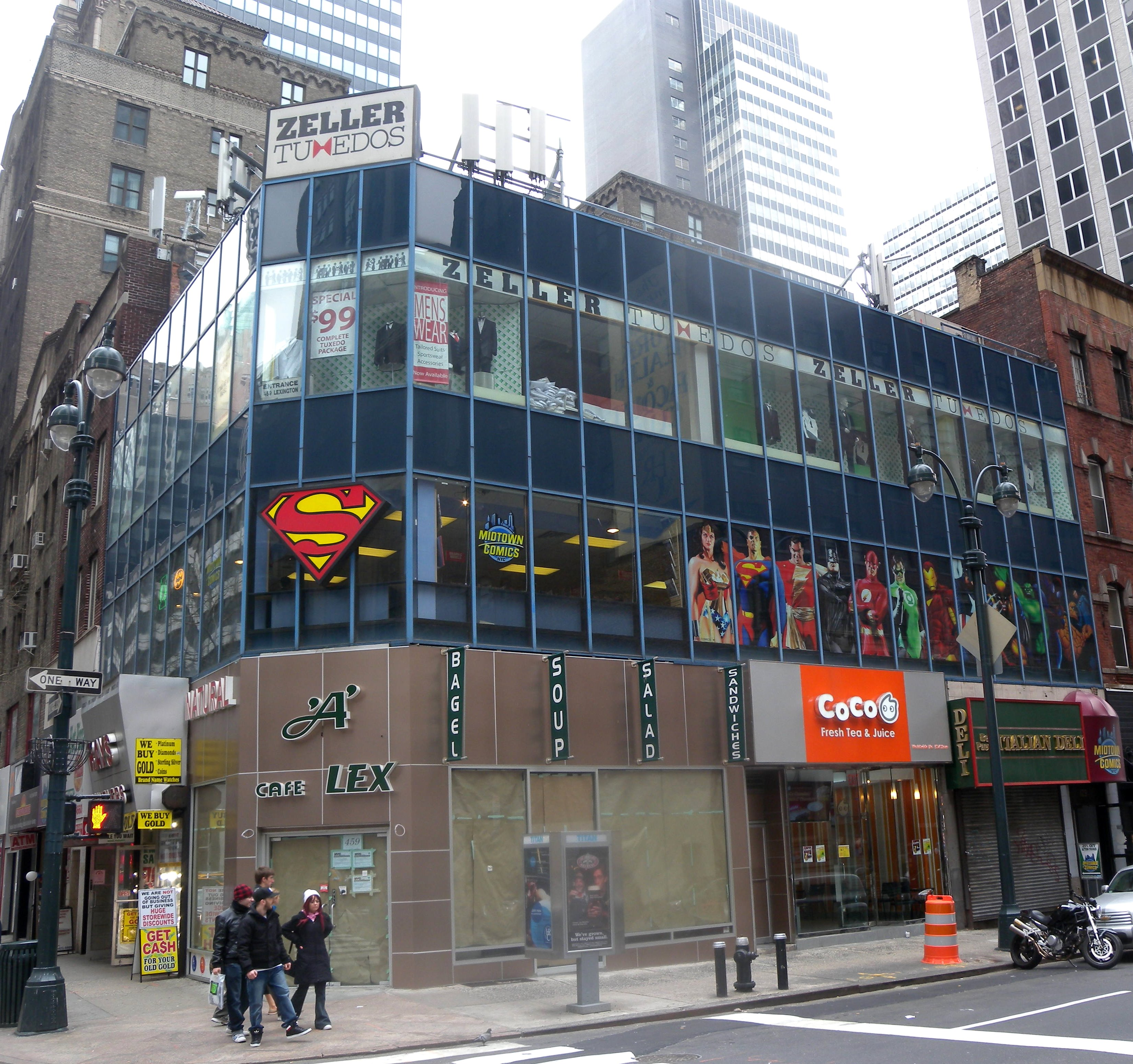 Looking northeast across 45th and Lex at Midtown Comics on a cloudy day.